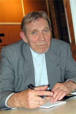 Marian Grześczak (1934-2010) - Polish poet, essayist and literary critic. He lived in Warsaw, Poland